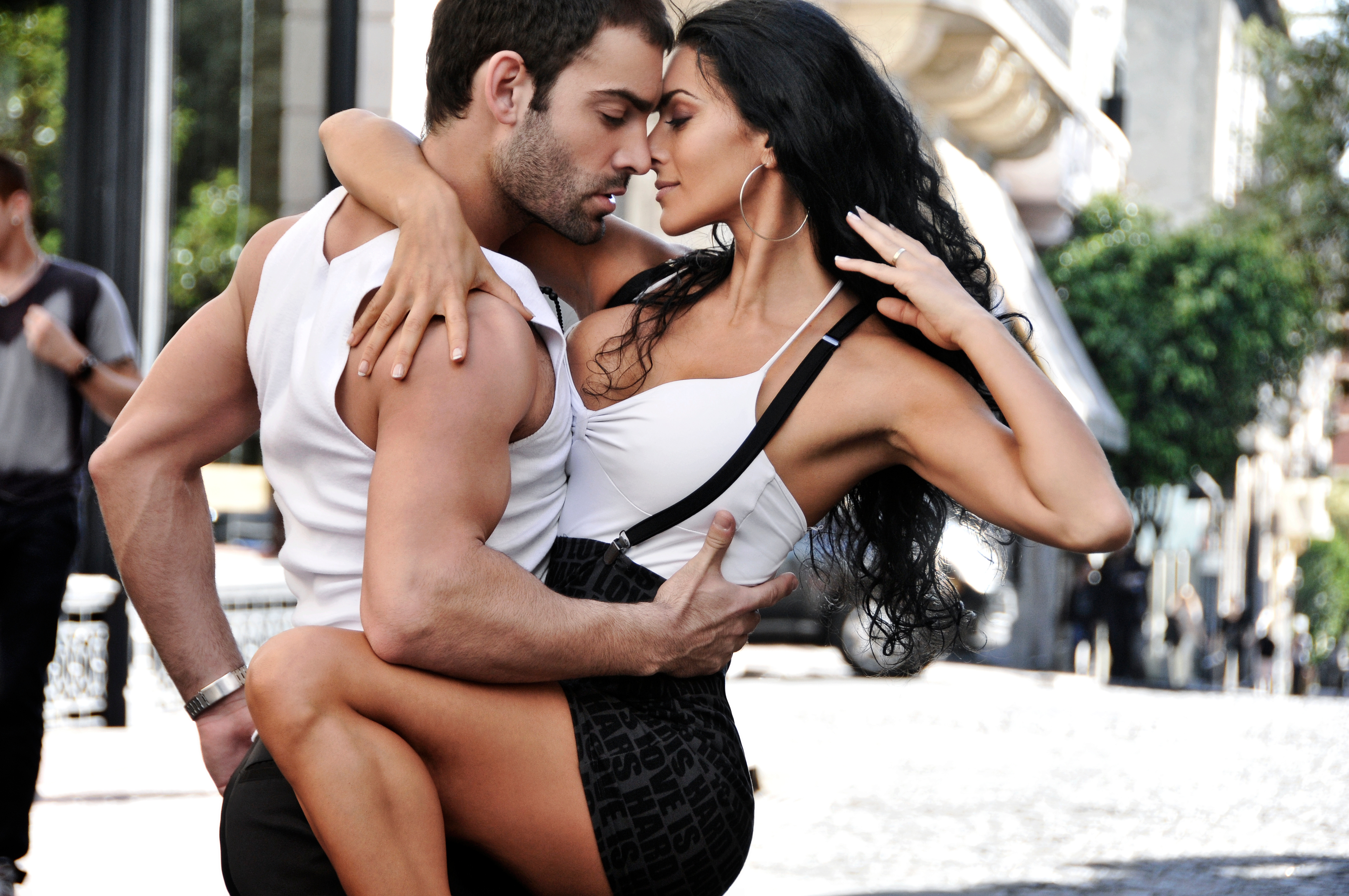 German Cornejo & Gisela Galeassi are an Argentinian tango dance duo. They have been dancing together since early 2011, currently dancing for German Cornejo's Dance Company[1][2] (GCDC), performing as lead dancers for the company. [3], Gisela and German won the title of World Tango Champions in 2003 and 2005, respectively, at the Campeonato Mundial de Baile de Tango (in